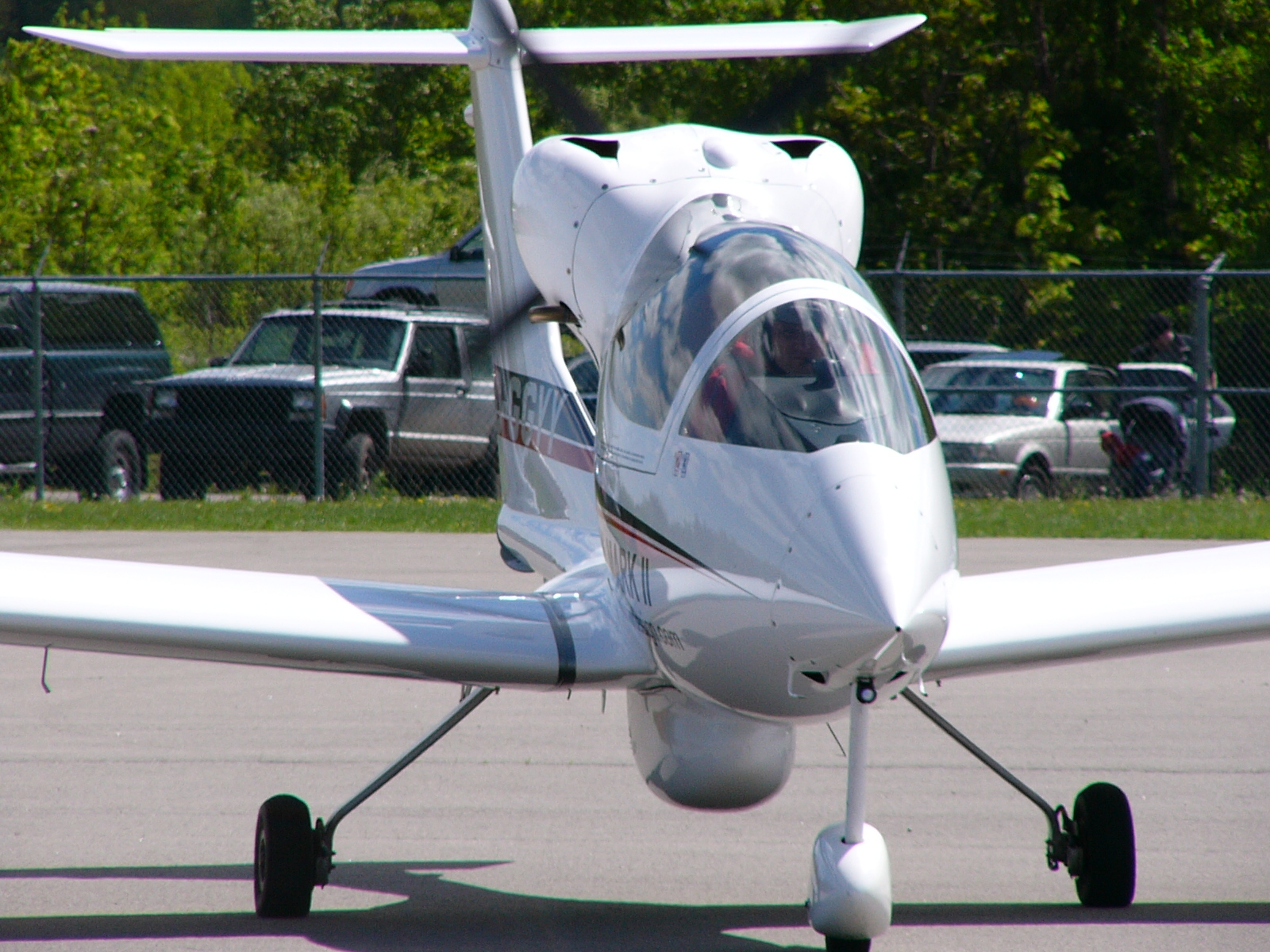 The prototype Partenair S-45 Mystere at the Lachute Fly-in